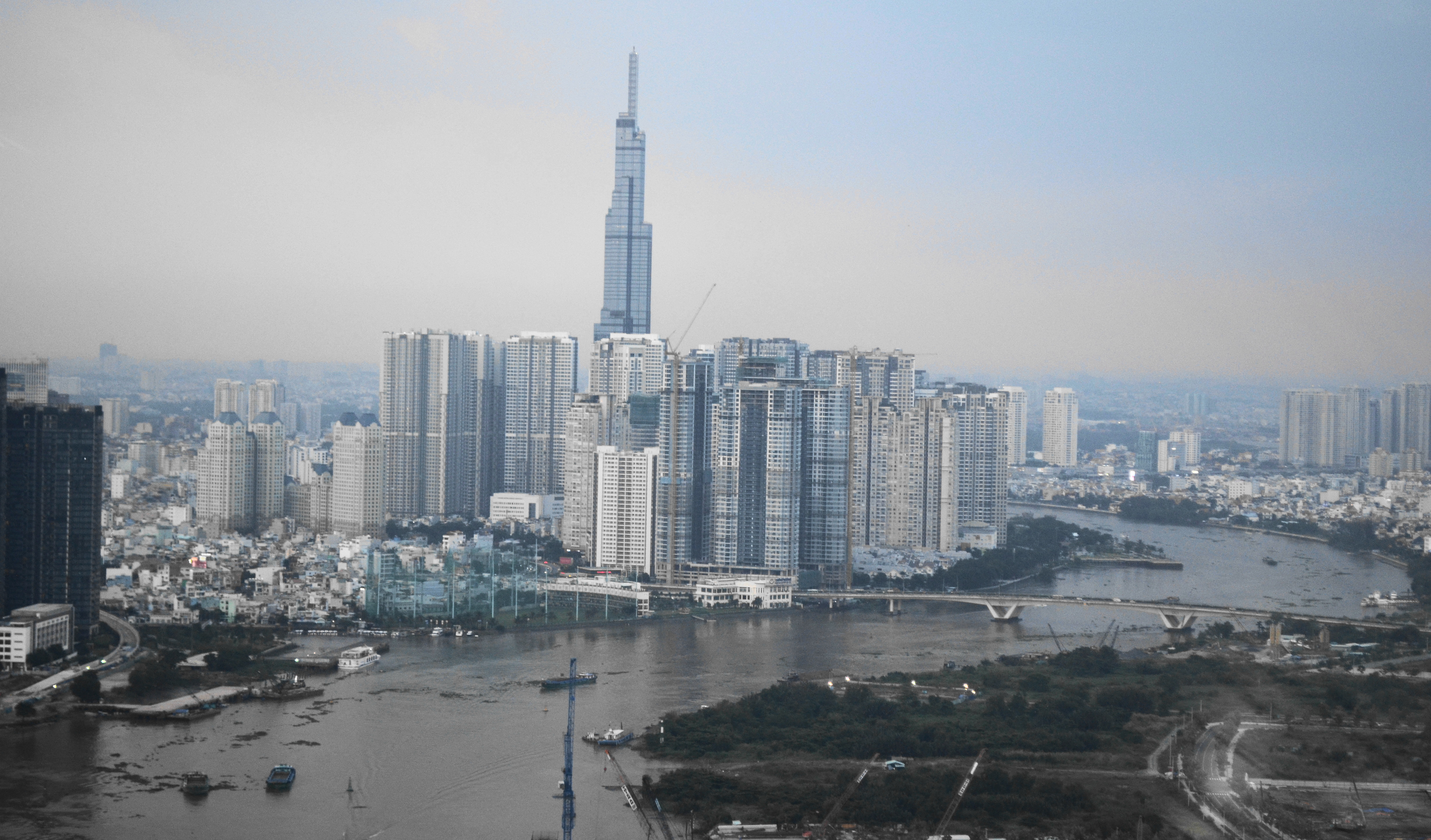 Vincom Landmark 81, Ho Chi Minh City